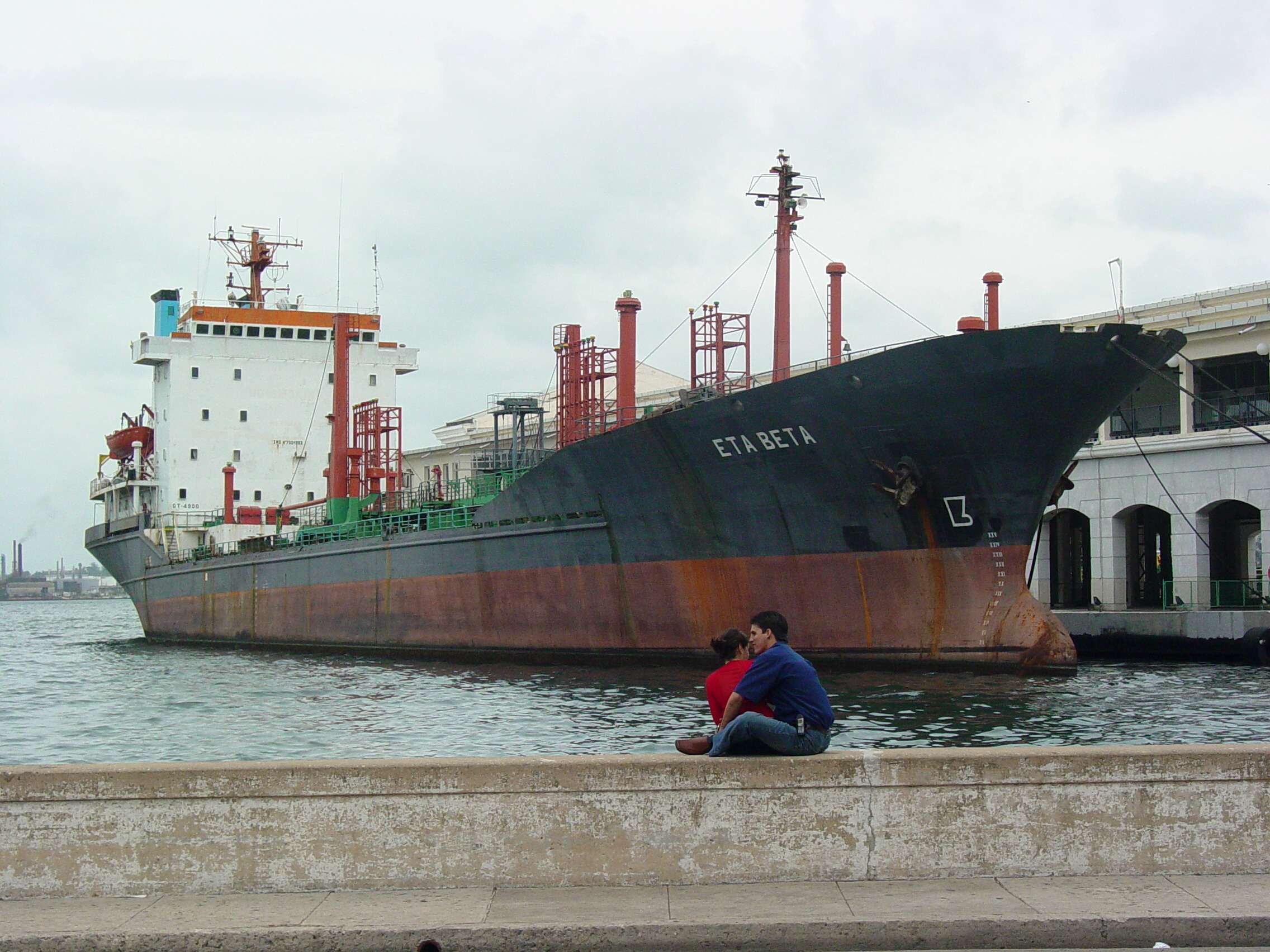 Couple at harborfront, Habana Vieja, Havana, Cuba. December 2006. Name of ship: ETA BETA Type of ship: Chemical Tanker IMO number: 7304883 Callsign: 3FVB7 Gross tonnage : 5077